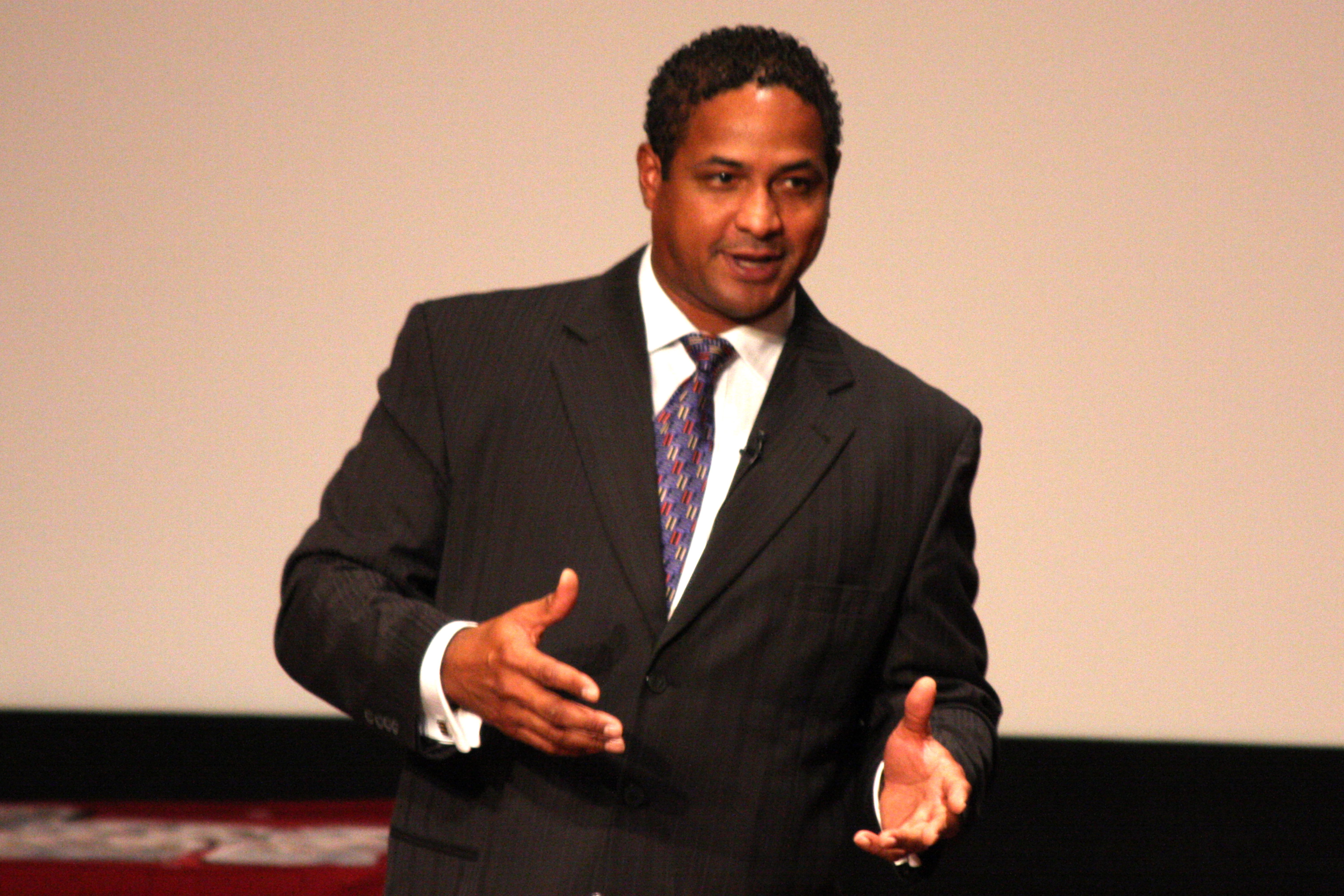 Roberto Clemente Jr. spoke at Team Redstone's Hispanic Heritage Observance at Bob Jones auditorium on Sept. 23. Clemente is from San Jaun, Puerto Rico, and is the son of baseball player Roberto Clemente, who died in an airplane crash in 1972. The younger Clemente is a baseball broadcaster and a former professional baseball player.